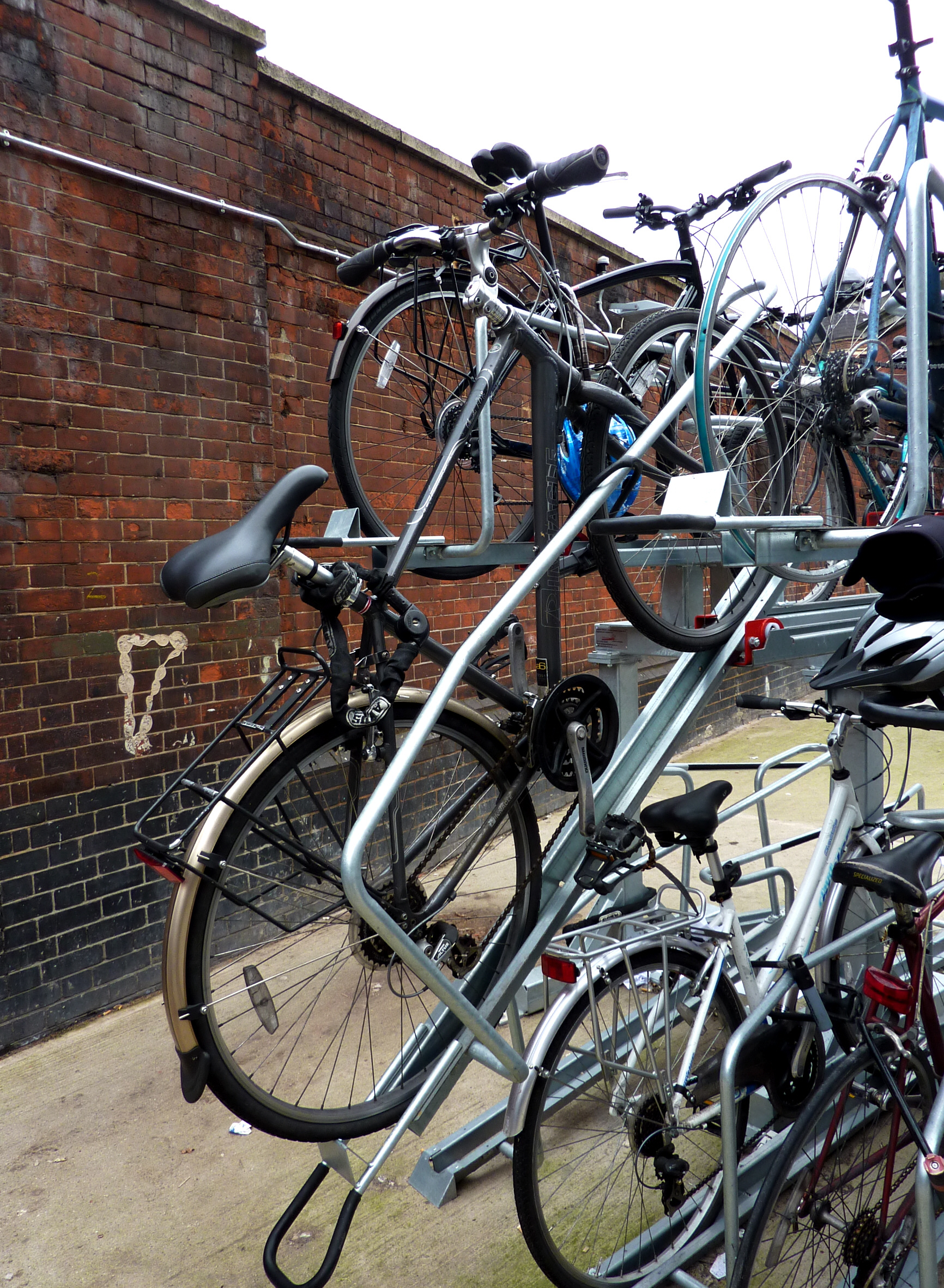 Two-storeyed bicycle rack, Waterloo Station, London SE1